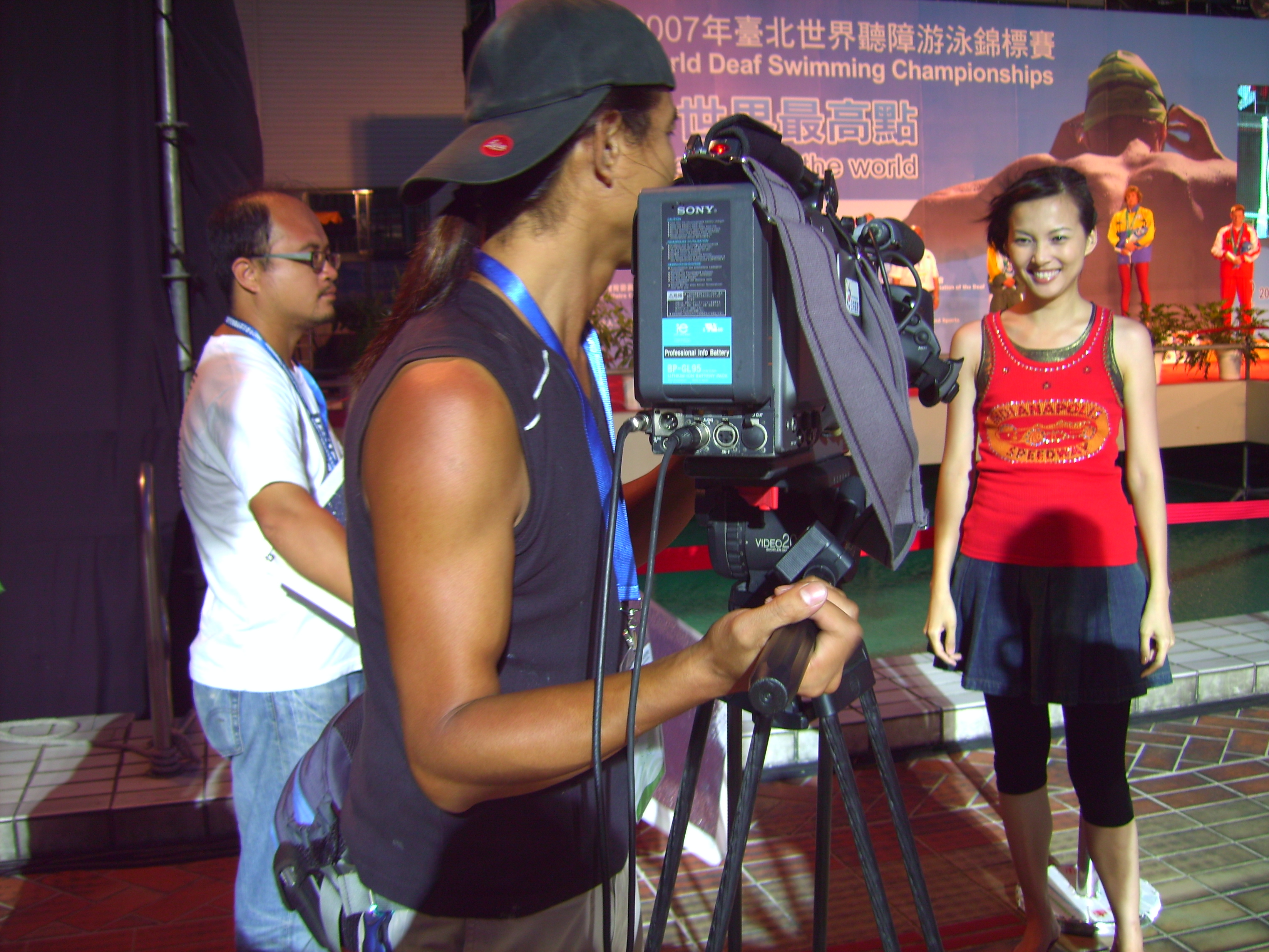 2007 World Deaf Swimming Championships: A live program "Sign Language Information Center" is recorded by Public Television Service Foundation.